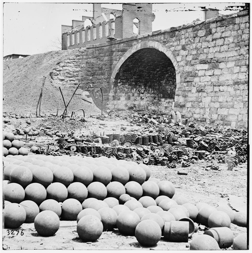 Richmond, Va. Piles of solid shot, canister, etc., in the Arsenal grounds; Richmond & Petersburg Railroad bridge at right